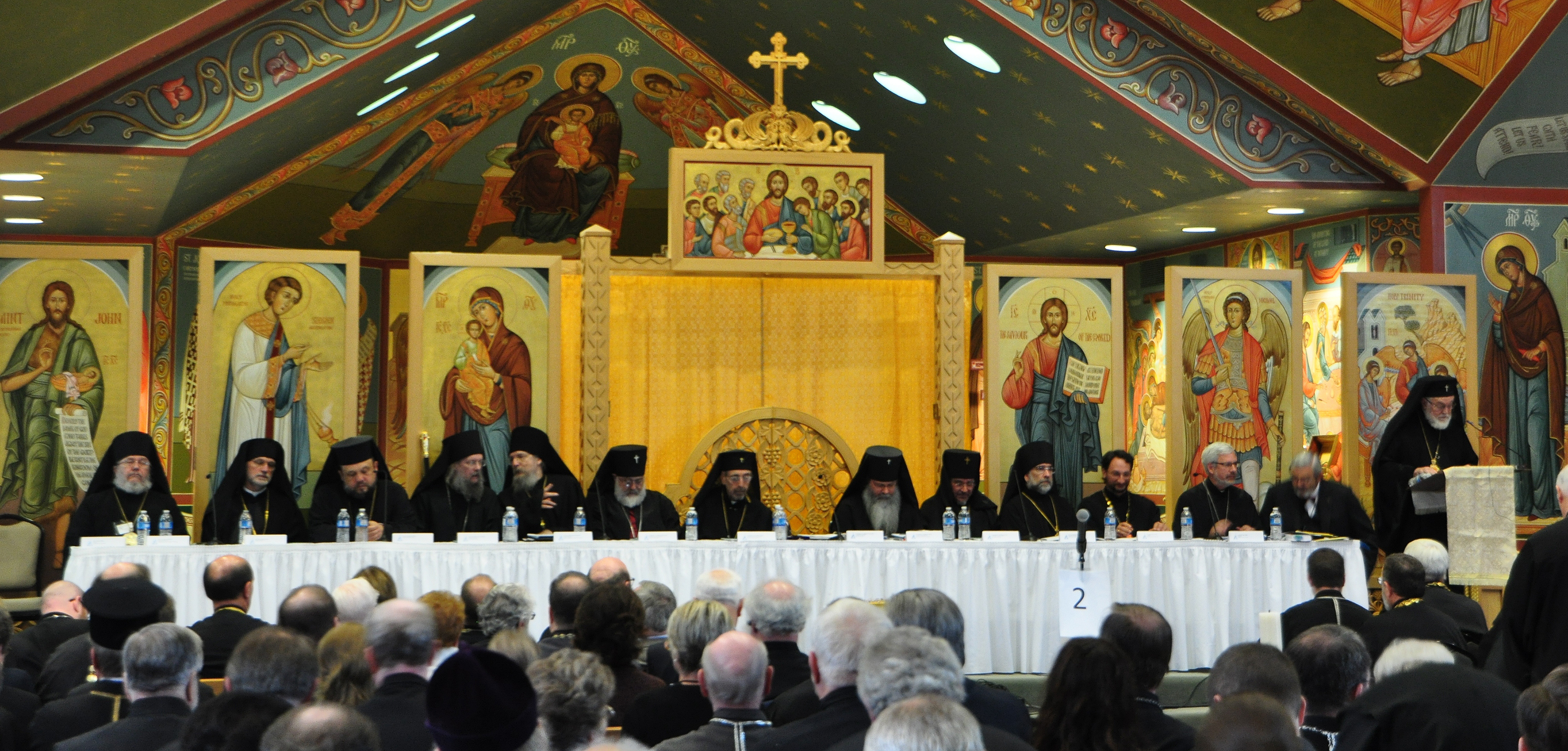 17th All American Council